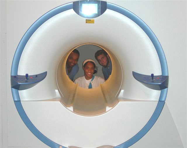 Osteoarthritis Initiative (OAI) researchers at Ohio State University look through the opening of an MRI machine, used to image the knees of patients. The OAI, a public-private partnership, led by NIAMS and the National Institute on Aging with additional support from five other Institutes and Centers, funds research and information sharing resources to aid in the identification of biological markers for osteoarthritis.